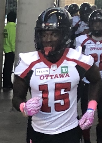 Dominique Rhymes, receiver for the Ottawa Redblacks.